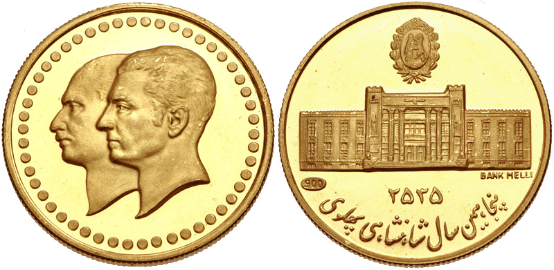 IRAN, Pahlavis. Muhammad Reza Shah. AH 1360-1398 / AD 1941-1979. Proof AV Medal (21mm, 4.99 g, 12h). Golden Jubilee of the Bank Melli of Iran. Bank Melli mint. Dated MS 2535 (AD 1976/7). Conjoined heads of Reza Shah and Muhammad Reza Shah left / National Bank of Iran building; marked .900 fine below. Hosseini p. 301. Proof, some minor marks.